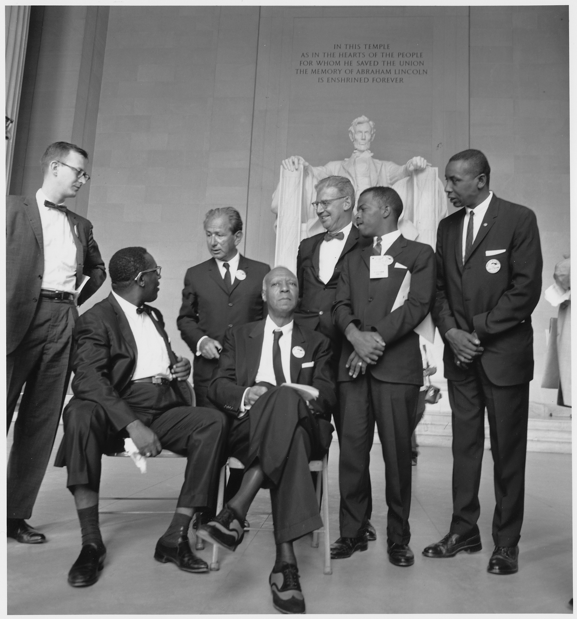 Scope and content: Civil Rights March on Washington, D.C. [Leaders of the march (from left to right) Mathew Ahmann, Executive Director of the National Catholic Conference for Interracial Justice; (seated with glasses) Cleveland Robinson, Chairman of the Demonstration Committee; (standing behind the two chairs) Rabbi Joachim Prinz, President of the American Jewish Congress; (beside Robinson is) A. Philip Randolph, organizer of the demonstration, veteran labor leader who helped to found the Brotherhood of Sleeping Car Porters, American Federation of Labor (AFL), and a former vice president of the American Federation of Labor and Congress of Industrial Organizations (AFL-CIO); (wearing a bow tie and standing beside Prinz is) Joseph L. Rauh Jr., a Washington, DC attorney and civil rights, peace, and union activist; John Lewis (civil rights leader), Chairman, Student Nonviolent Coordinating Committee; and Floyd McKissick, National Chairman of the Congress of Racial Equality.]